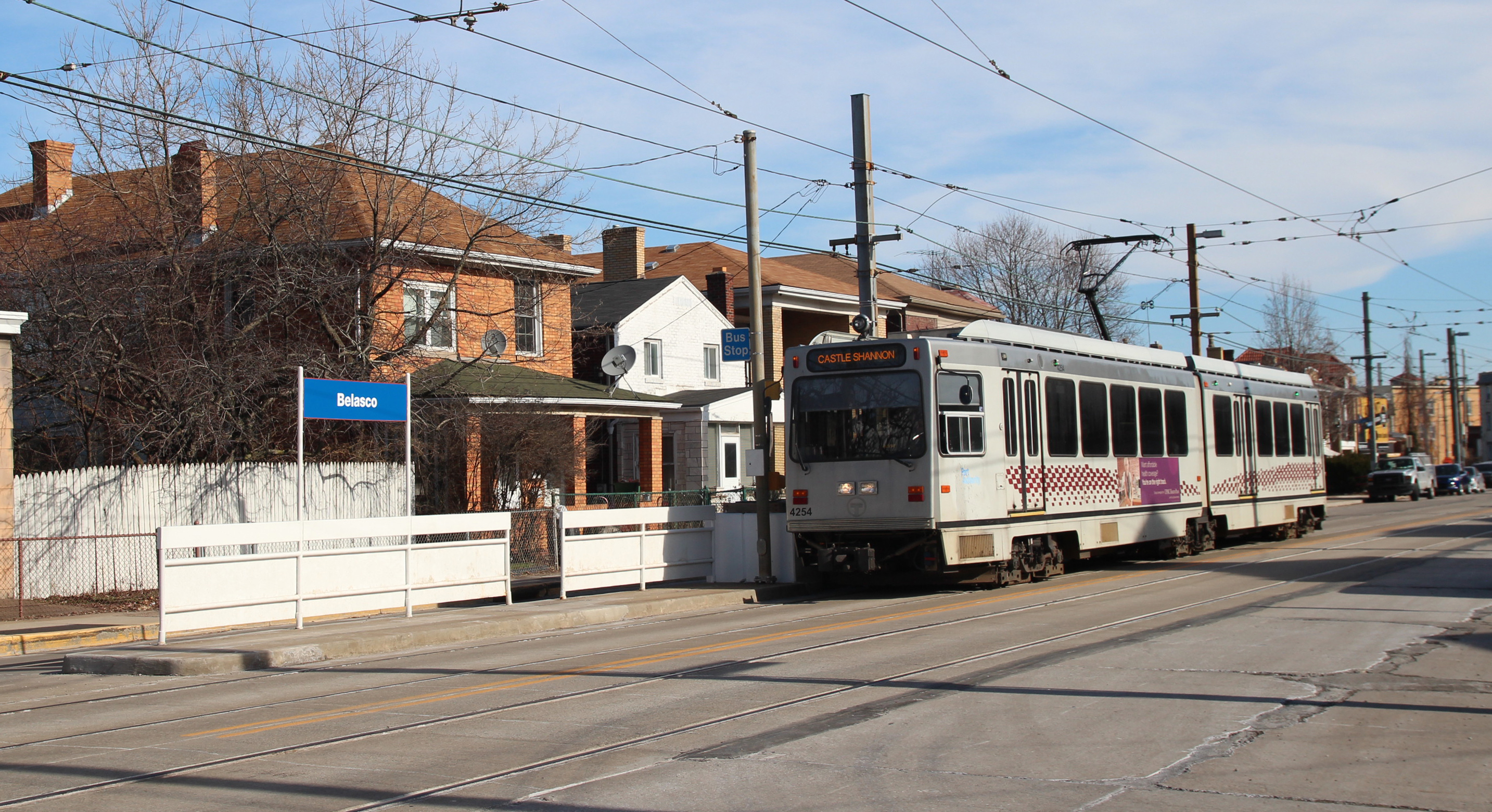 An outbound Red Line train arrives at Belasco station.